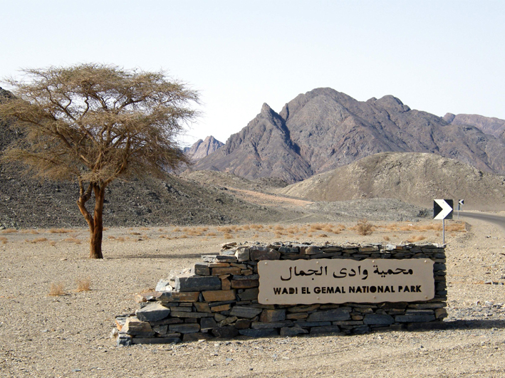 Qesm Marsa Alam, Red Sea Governorate, Egypt